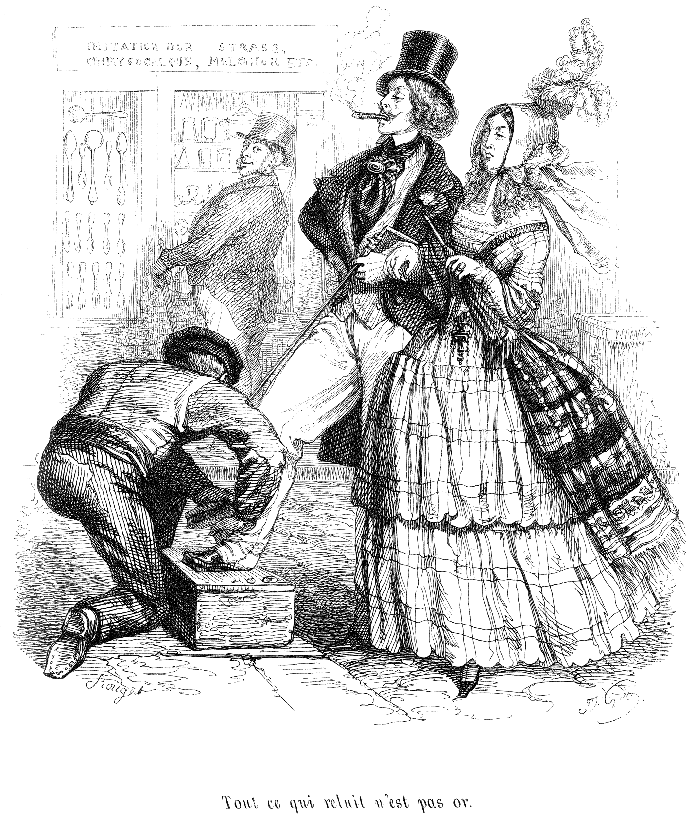 Grandville : Cent Proverbes en: "All that glitters is not gold."